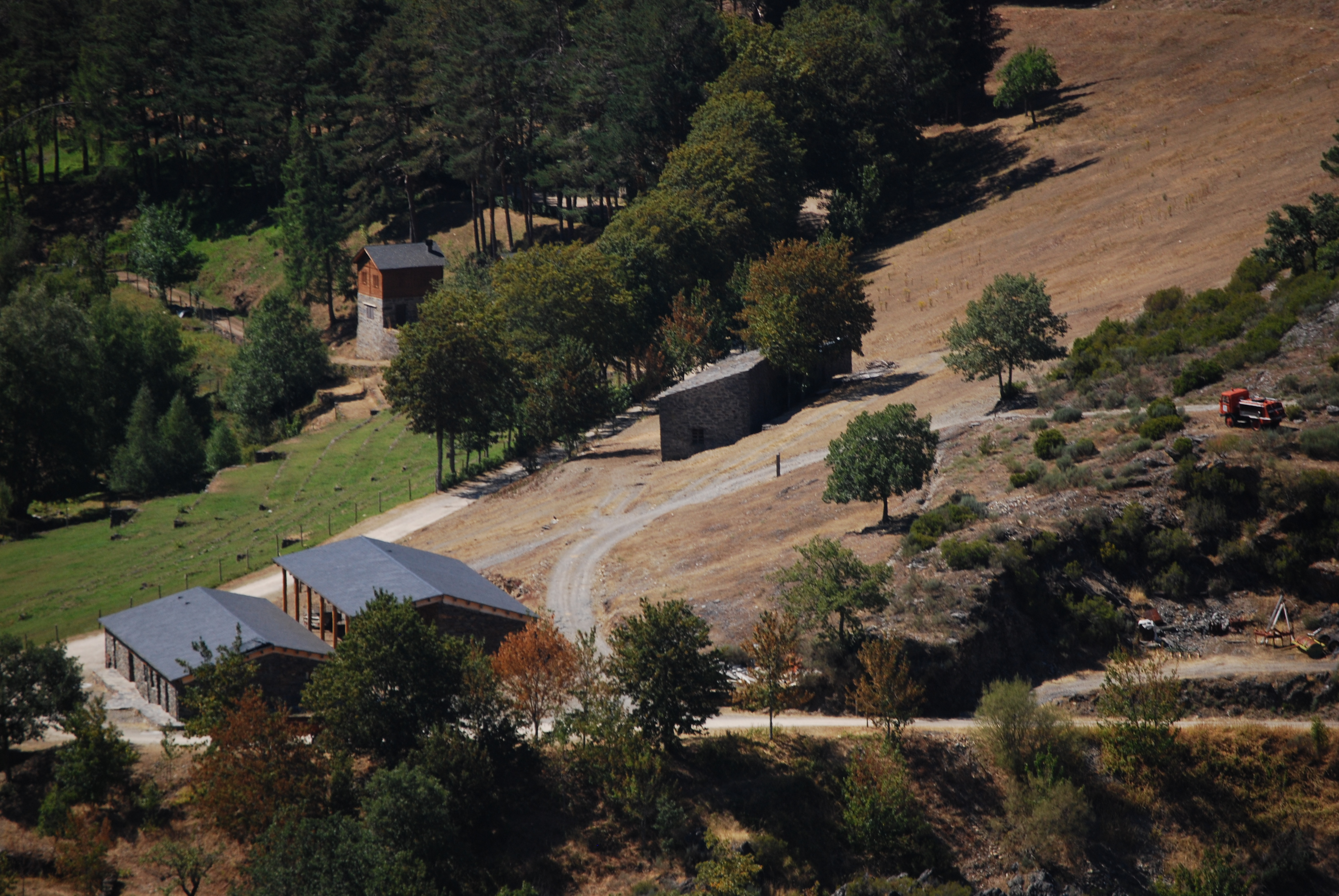 Parque natural do Invernadeiro.